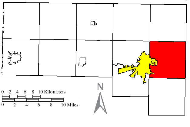 Made by the US Census and modified by myself